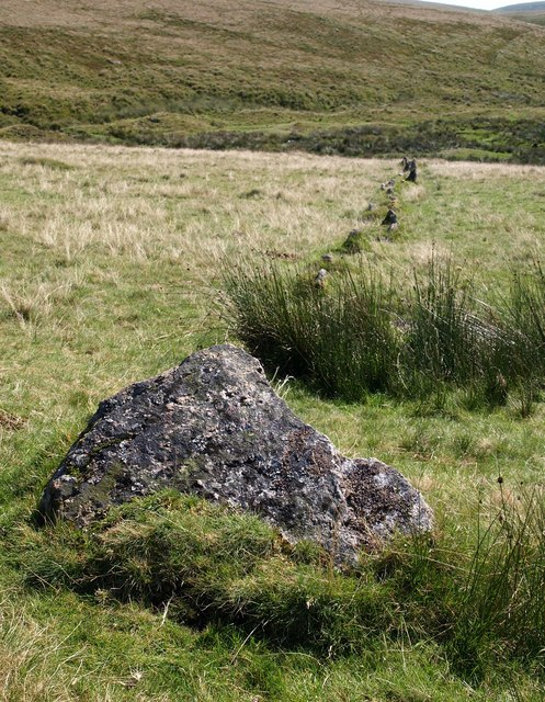 Upper Erme stone row Part of the remarkable 3.3 km long row of stones running from Green Hill roughly southwards, parallel to Dry Lake and the Erme, seen from the point where it is crossed by the Abbot's Way